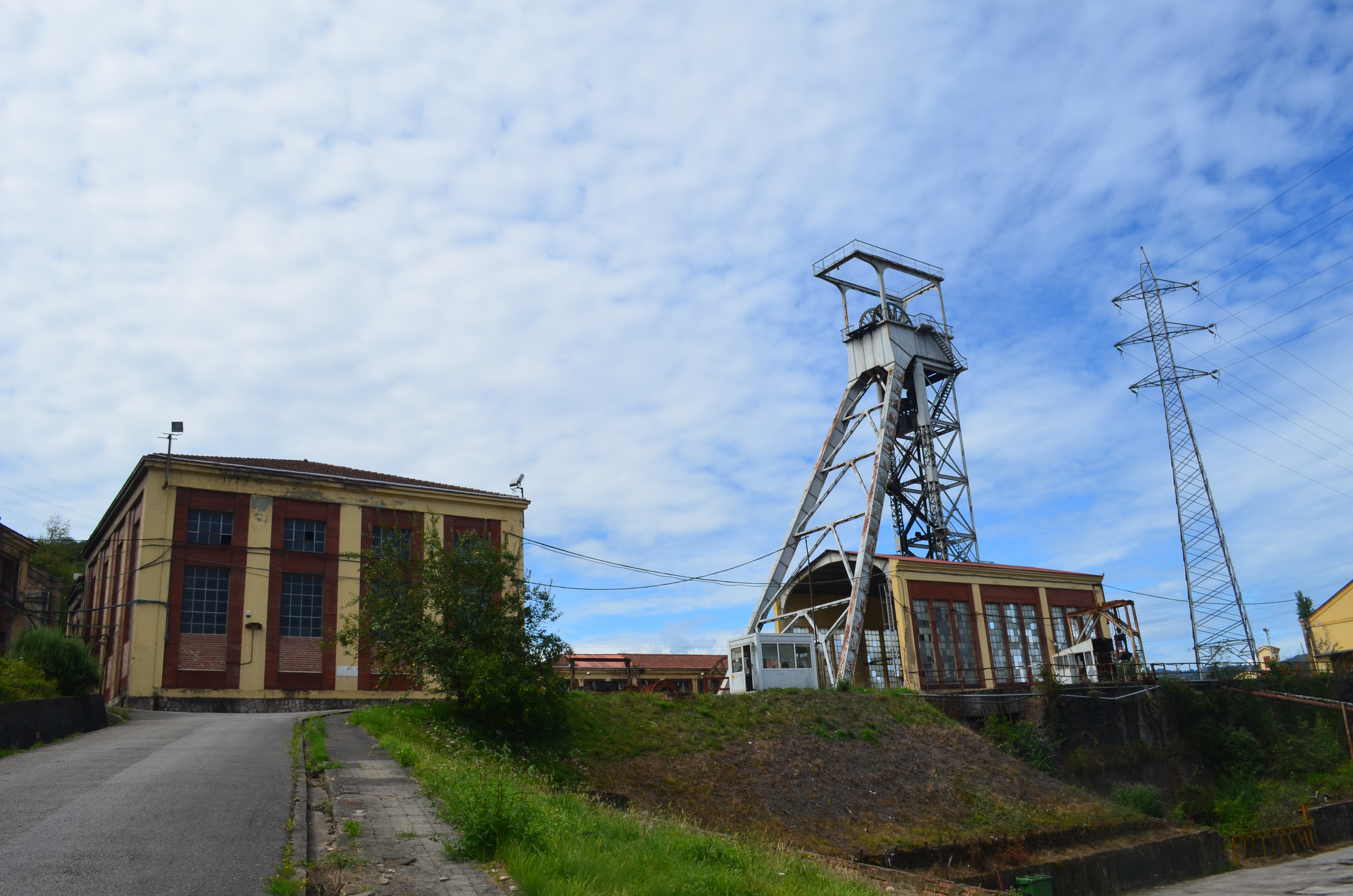 Lláscares Mine or Candín II Mine, in La Felguera, Asturias, north Spain